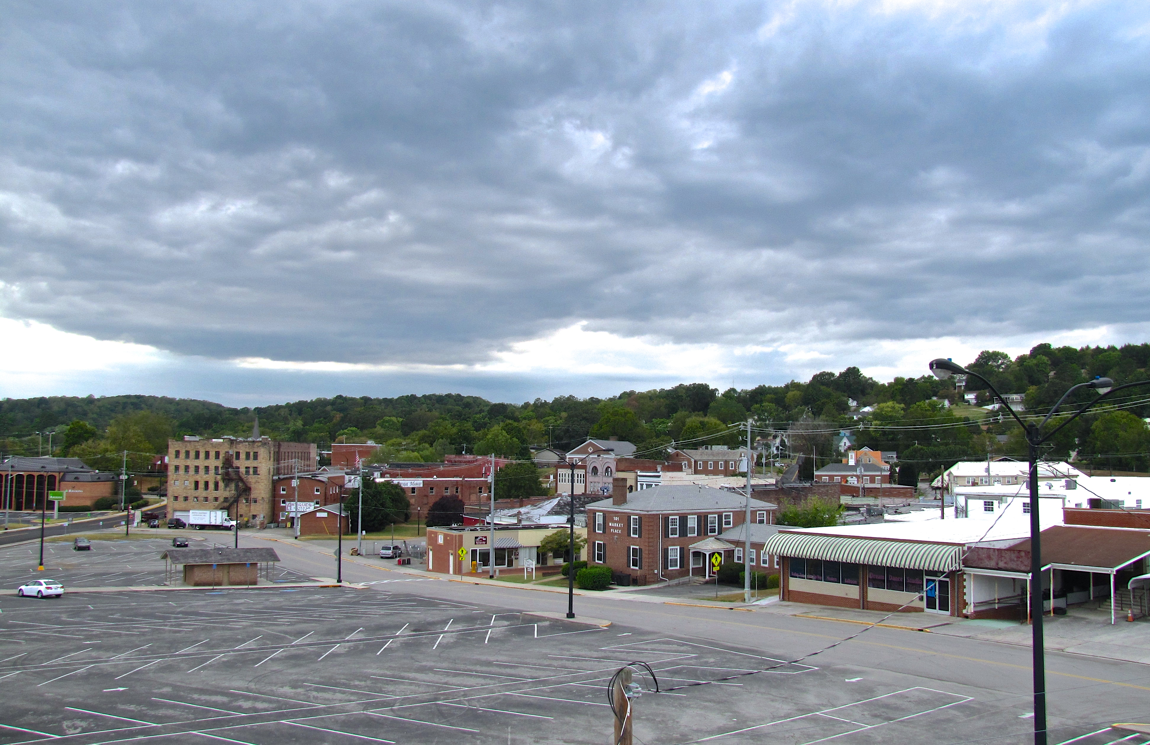 Downtown Clinton, Tennessee, United States, viewed from the Seivers Boulevard overpass.